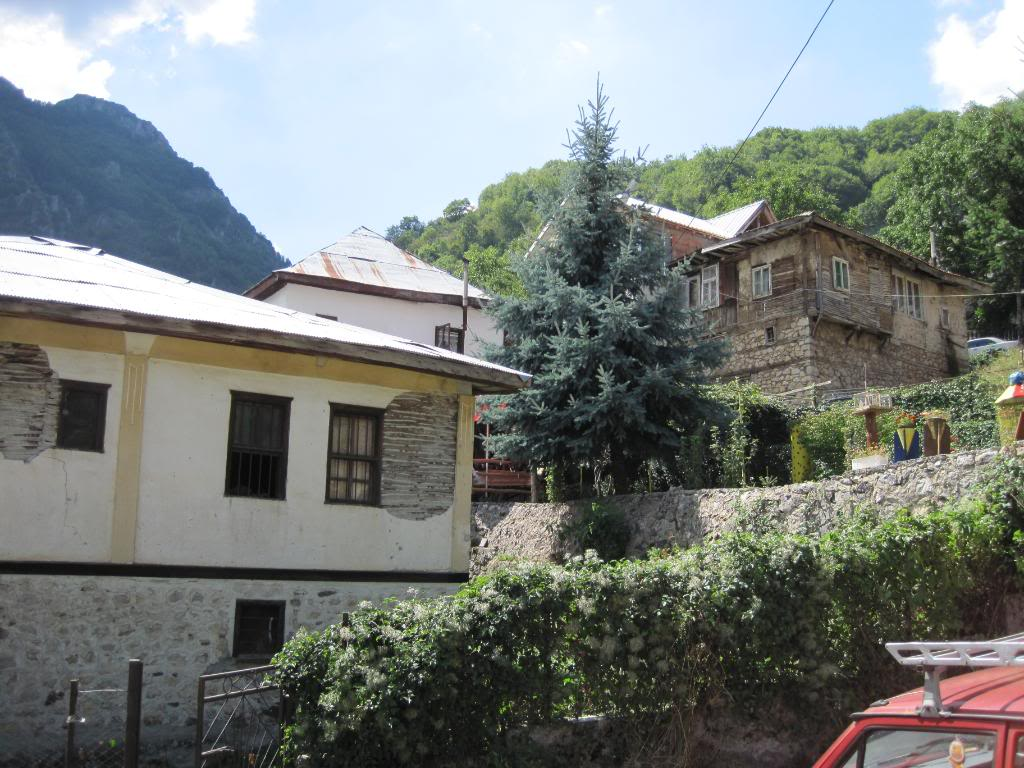 Village of Gari, Republic of Macedonia